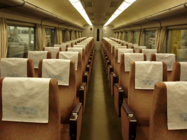 Kinki Nippon Railway 16000 series seat in the car